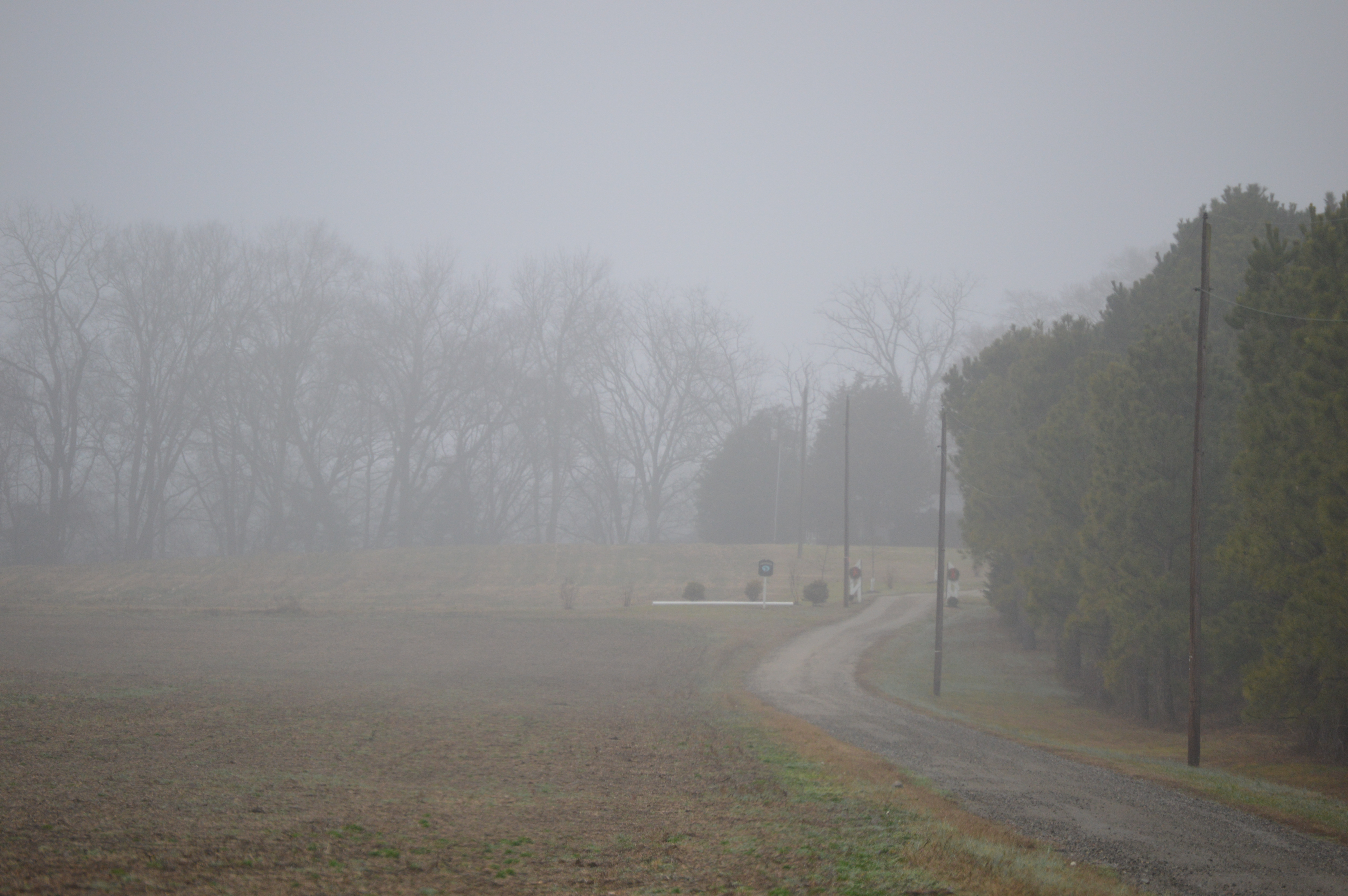 Looking down the driveway for the Northbank estate, located at the end of Northbank Road southeast of Aylett in King and Queen County, Virginia, United States. The farmstead is listed on the National Register of Historic Places.